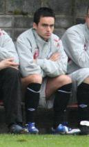 Neil McCafferty of DCFC. Personal photo. Cropped.